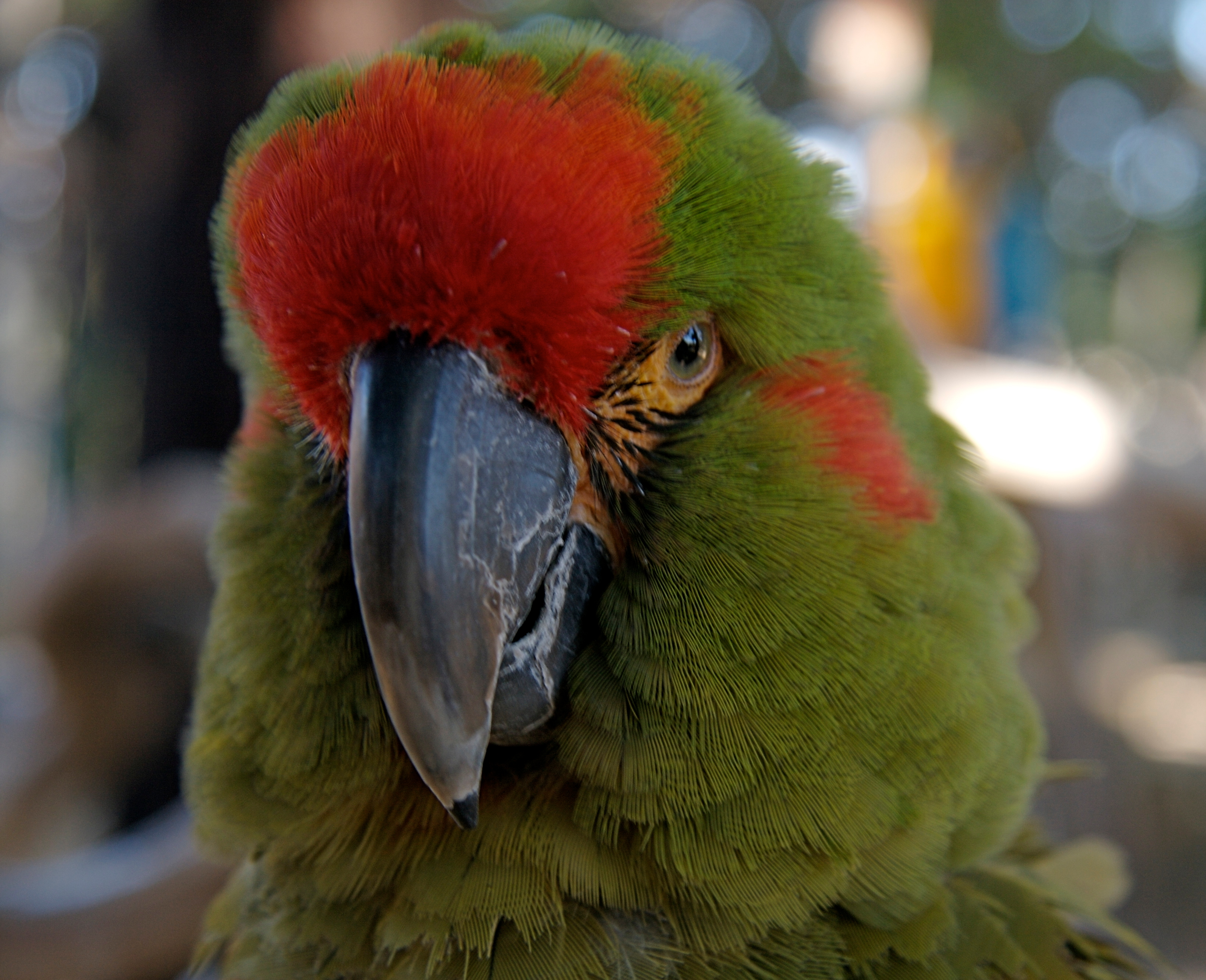 Red-fronted Macaw (Ara rubrogenys) head.